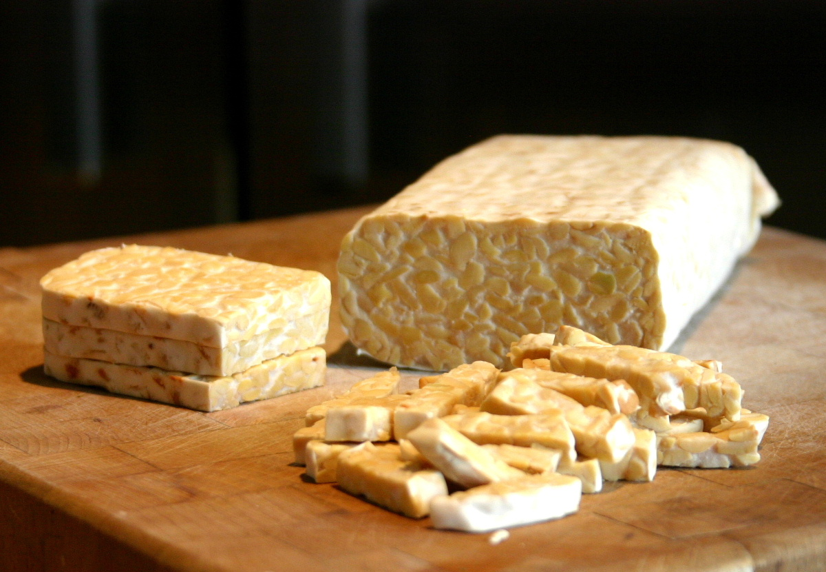 Tempeh